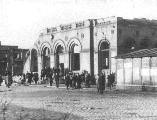 Dessau station after the destruction in 1945